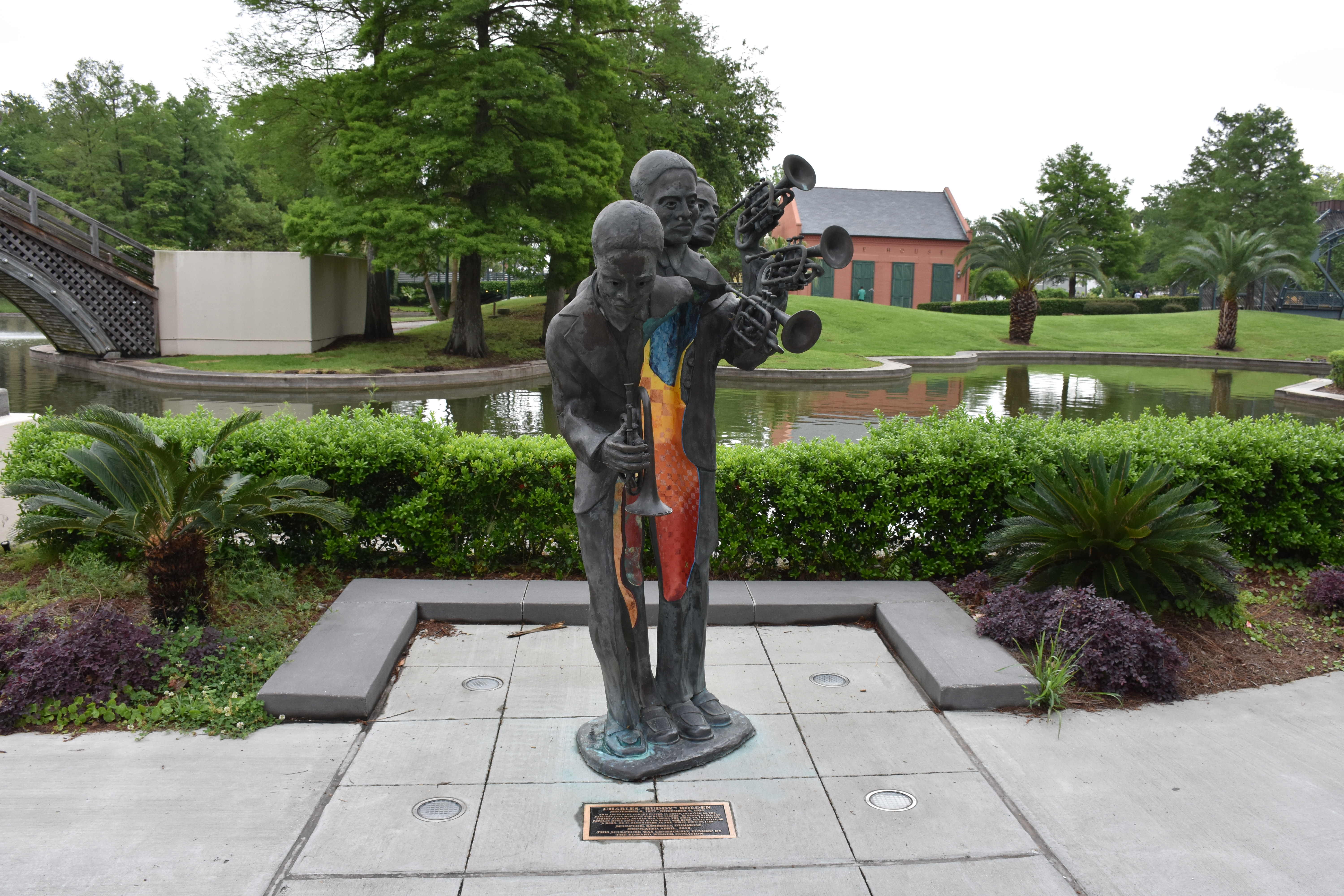 A statue dedicated to Buddy Bolden in Louis Armstrong Park, New Orleans